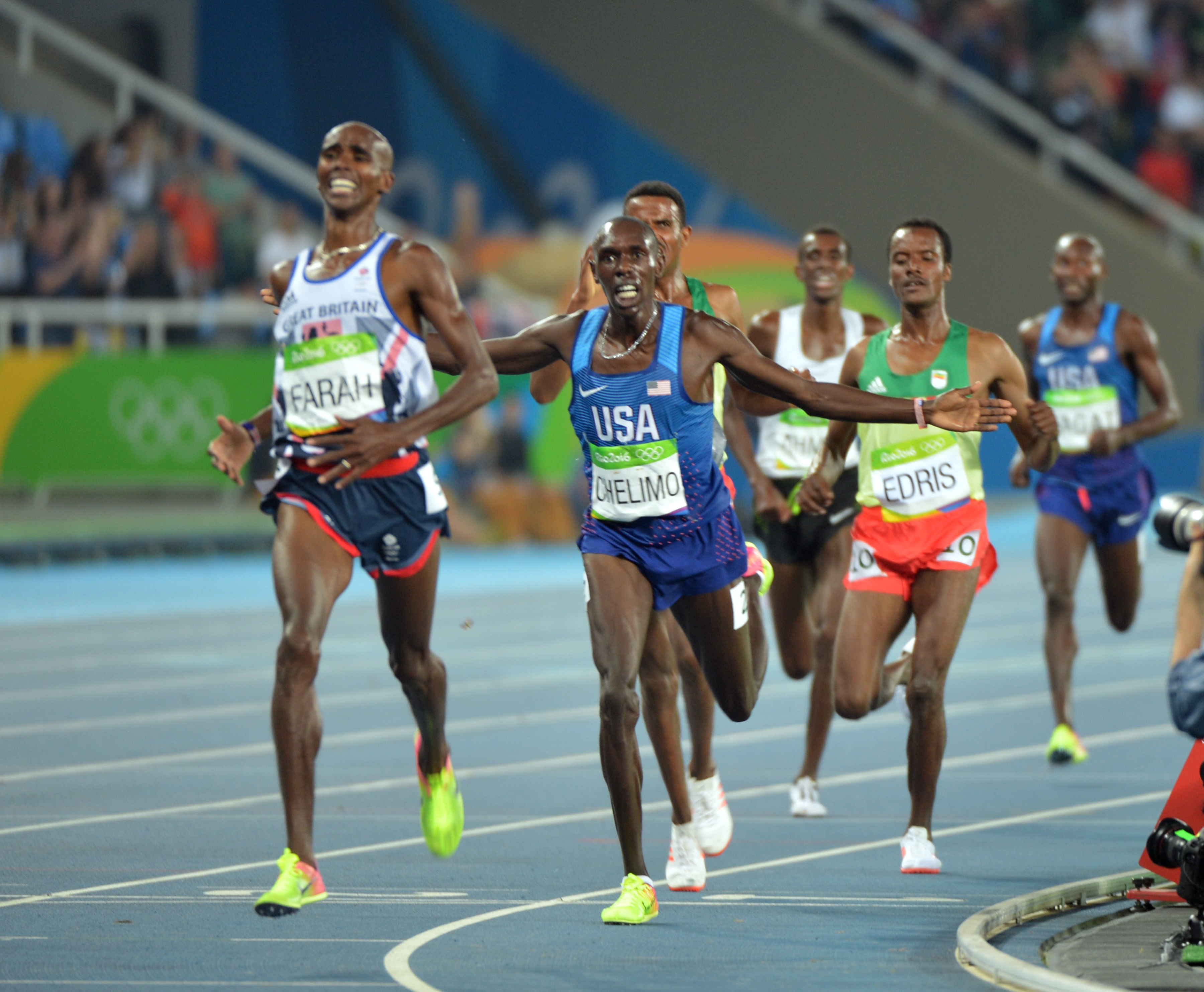 Spc. Paul Chelimo of the U.S. Army World Class Athlete Program finishes runner-up to Mo Farah of Great Britian to claim the silver medal in the men's 5,000-meter run with a personal-best time of 13 minutes, 3.90 seconds at the Rio Olympic Games in Rio de Janeiro. Farah won the gold in 13:03.30 and Hagos Gebrhiwet of Ethiopia took the bronze in 13:04.35. Chelimo was disqualified from the race but later reinstated and collected his silver medal at the awards ceremony, which was delayed to sort it out. U.S. Army photo by Tim Hipps, IMCOM Public Affairs #SoldierOlympians #ArmyOlympians #ArmyTeam #GoArmy #TeamUSA #RoadToRio #Olympics #ArmyStrong